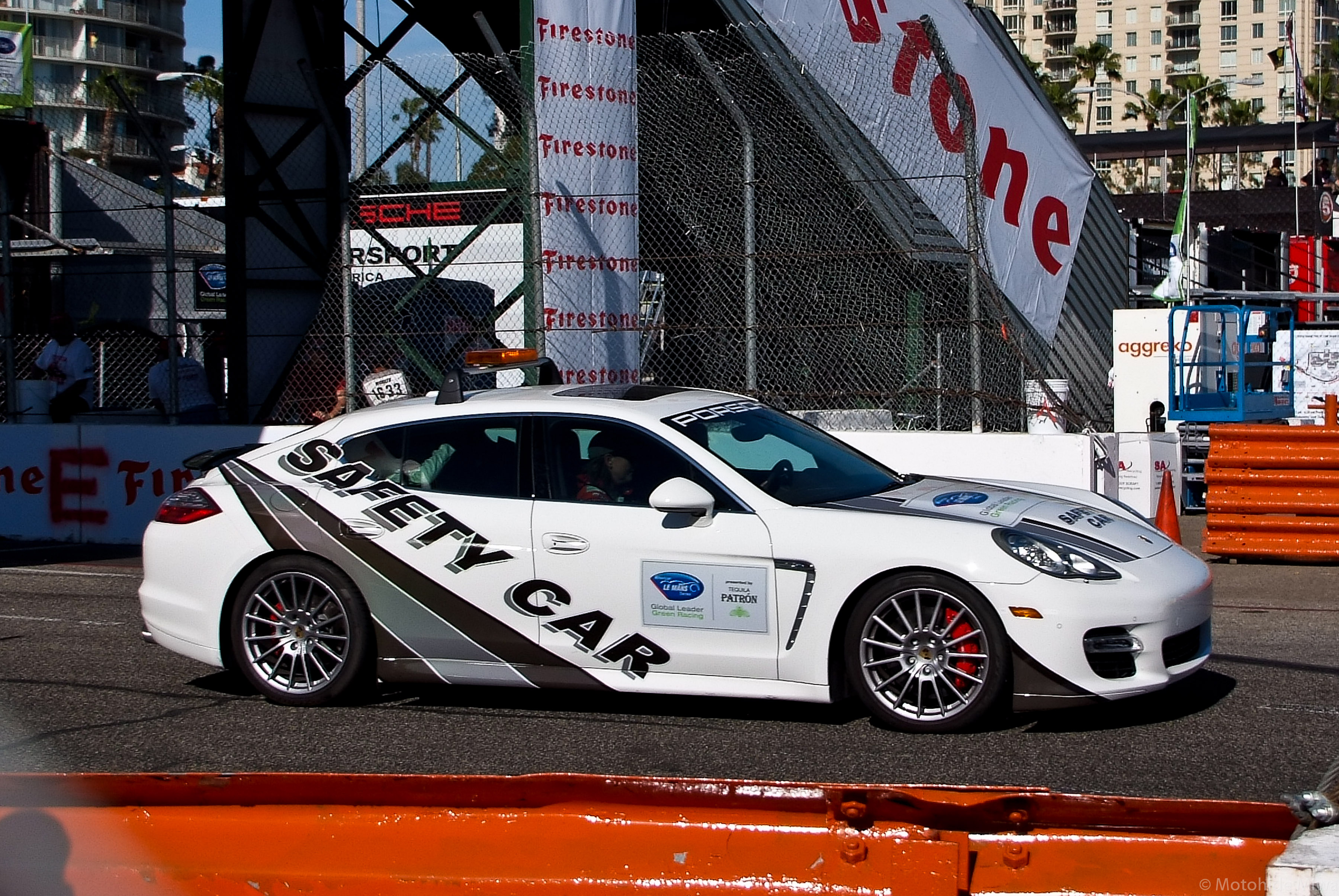 American Le Mans Series Porsche Panamera Safety Car